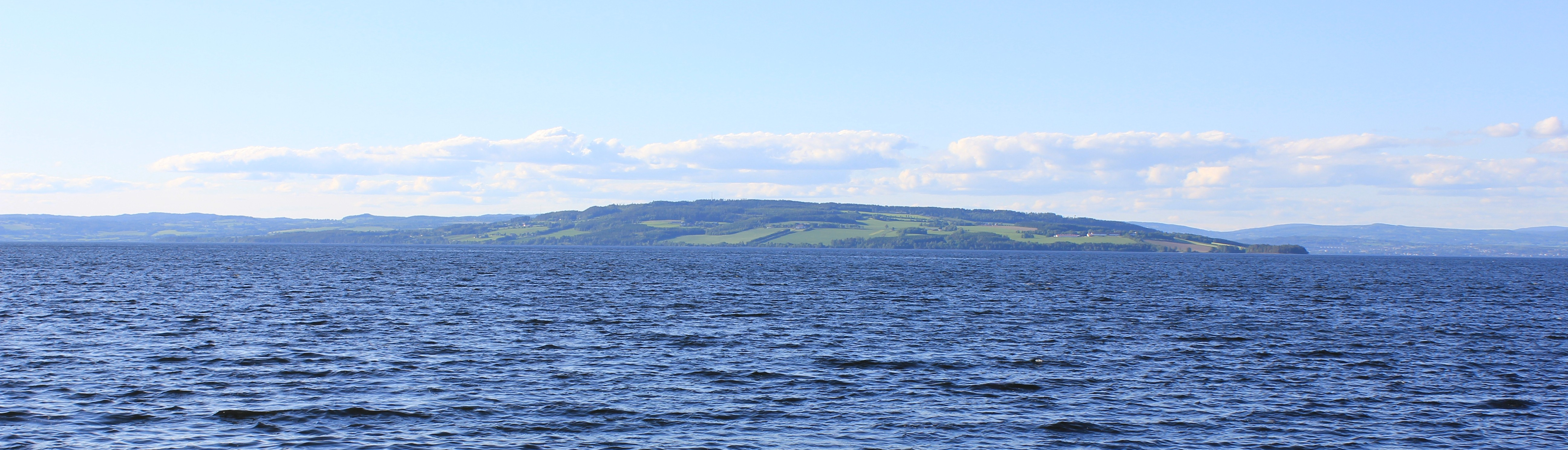 Helgøya island in Lake Mjøsa, Norway.